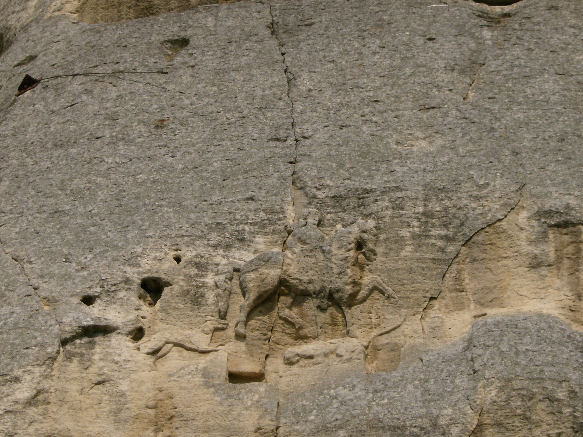 Madara rider